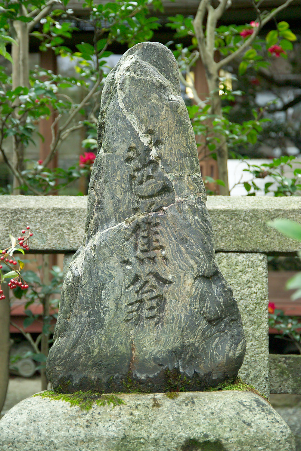 This stone marks the grave of Matsuo Bashō (松尾芭蕉) at Gichu-ji, Otsu, Shiga Prefecture, Japan. I took the photo and contribute my rights in the file to the public domain; individuals and organizations retain rights to images in the file.